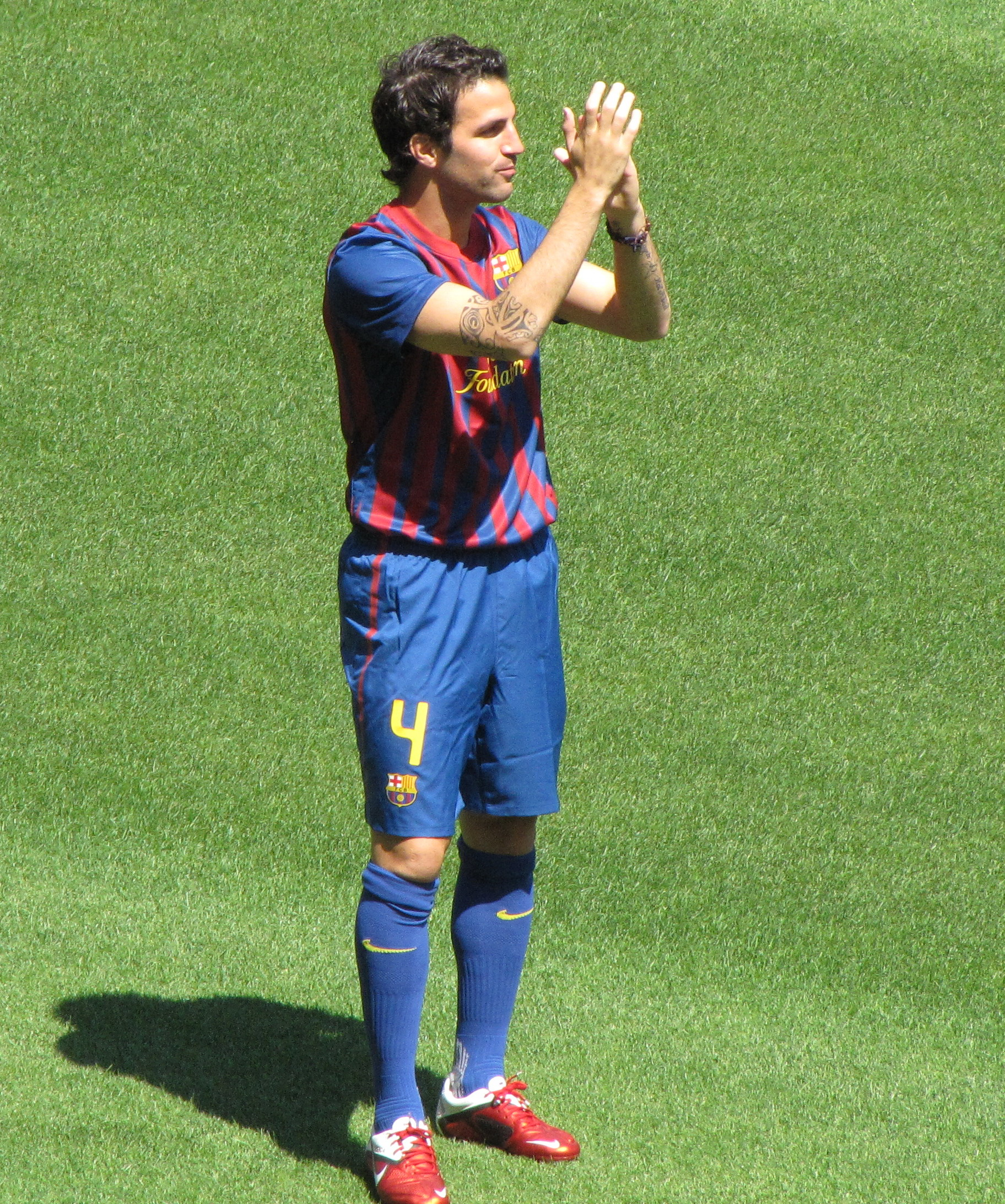 Cesc Fabregas - Presentation.jpg